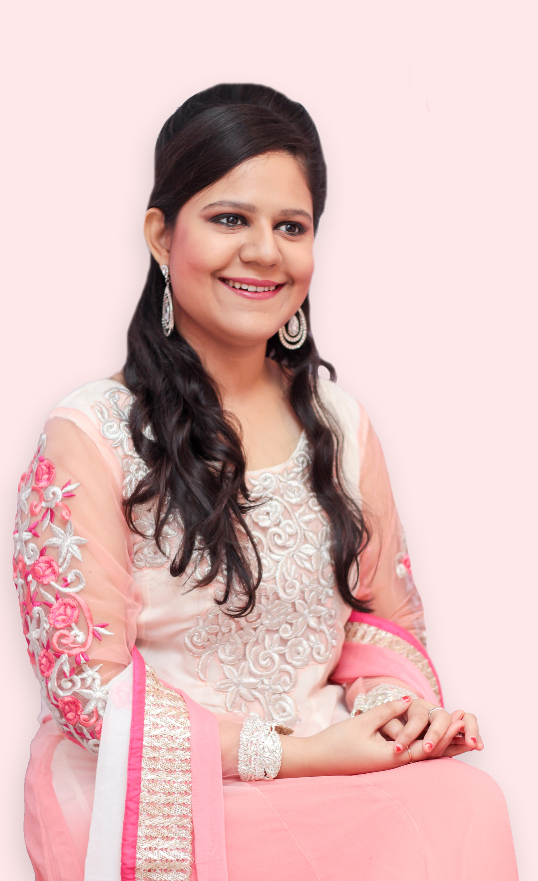 Sayani Palit Photoshoot by Arunava ChakrabortyDepicted person: Sayani Palit – Indian singer-songwriter